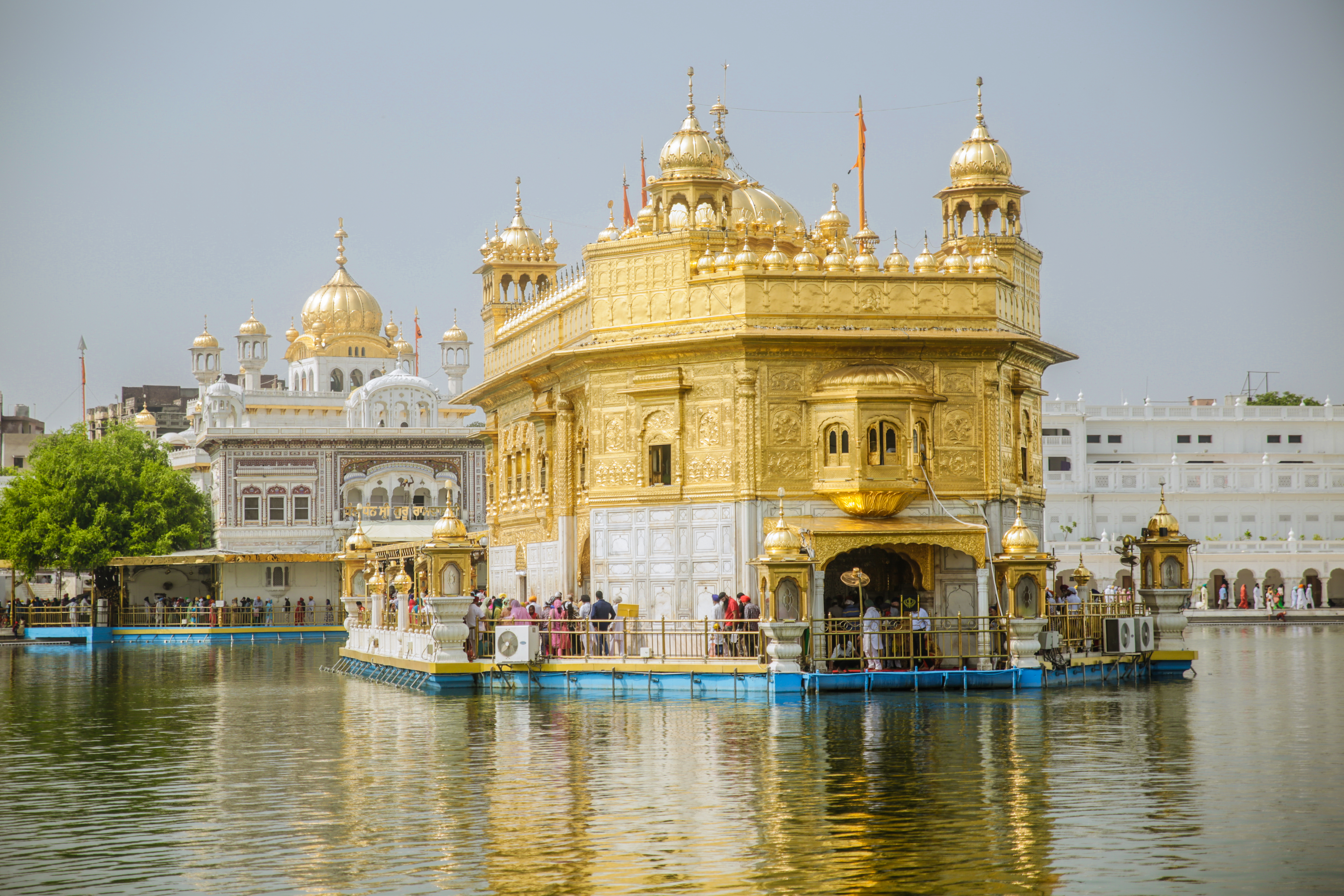 Darbar Sahib is a historic Sikh Gurdwara located in the city of Amritsar.